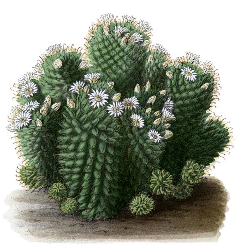 Mammillaria glochidiata